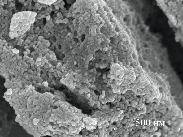 Nanopowder BaAl2O4, polymer gel obtained by annealing at 800 º C. Author: V. Petrykin, Tohoku University, Japan. From his personal archives.